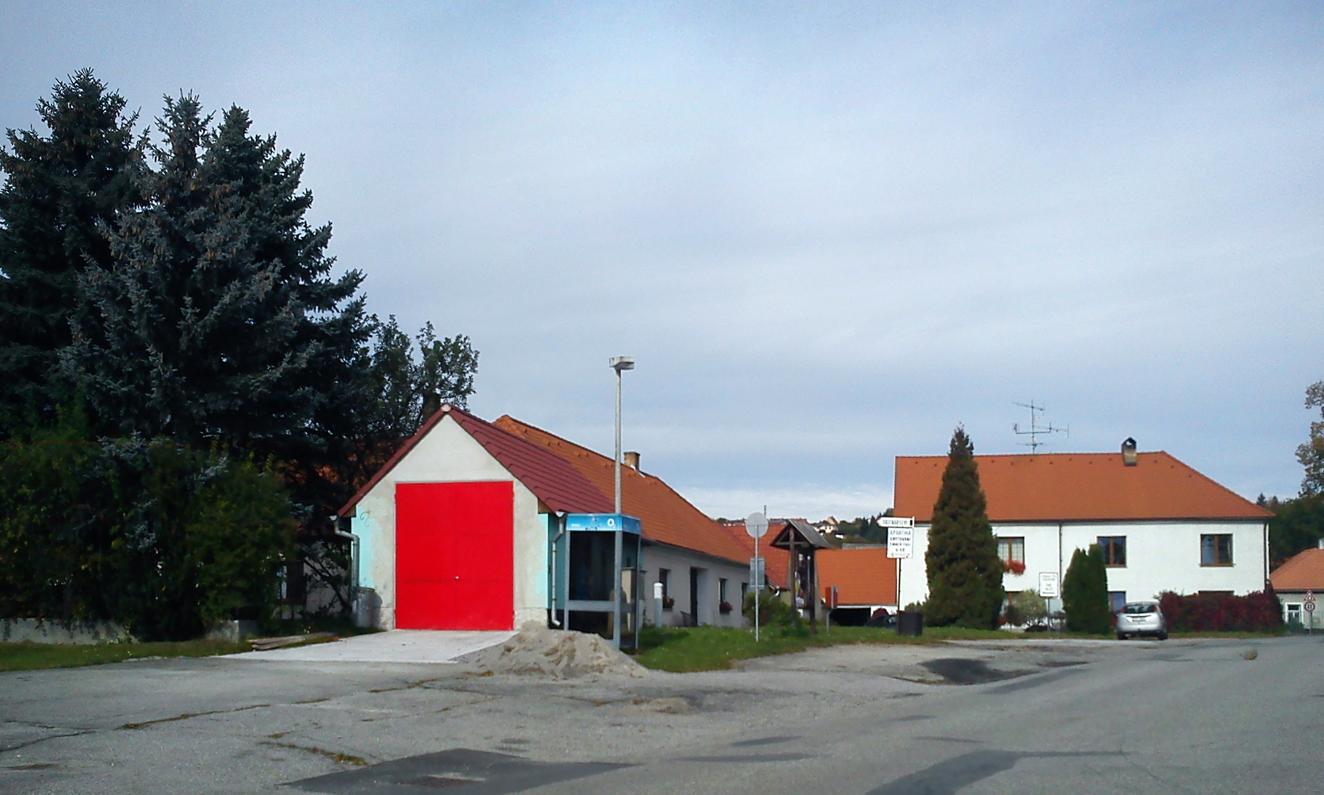 illage green in Rájov, Český Krumlov District, South Bohemian Region, Czech Republic .